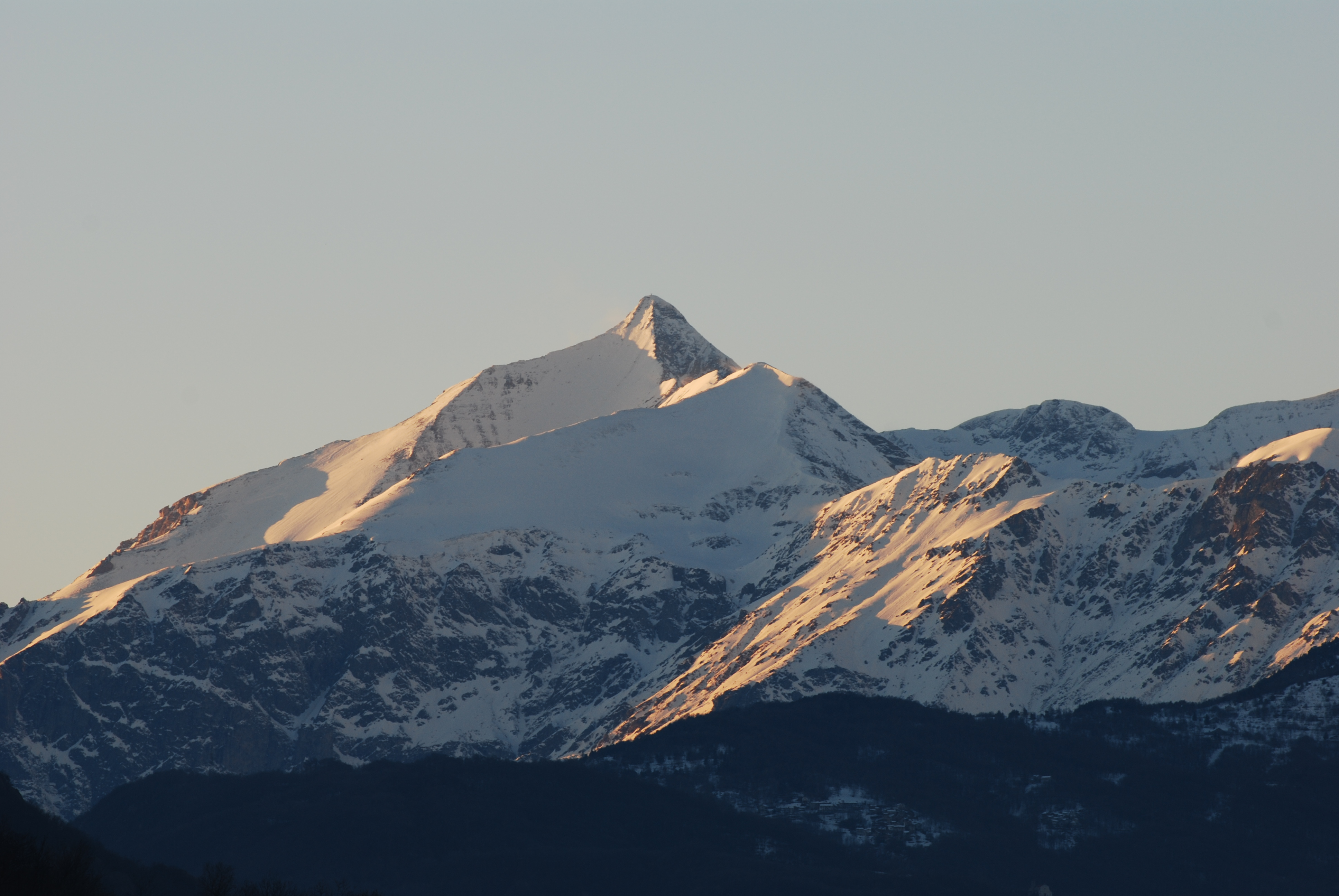 Mount Rocciamelone (3538 m), Italy